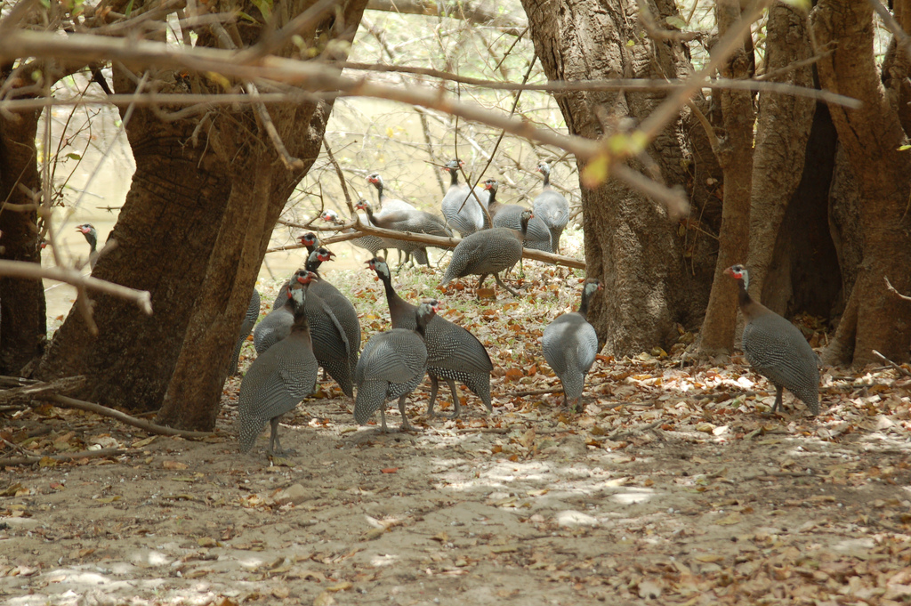 A covey of wild Helmeted guineafowl in the Niger section of the Parc W du Niger complex of protected areas